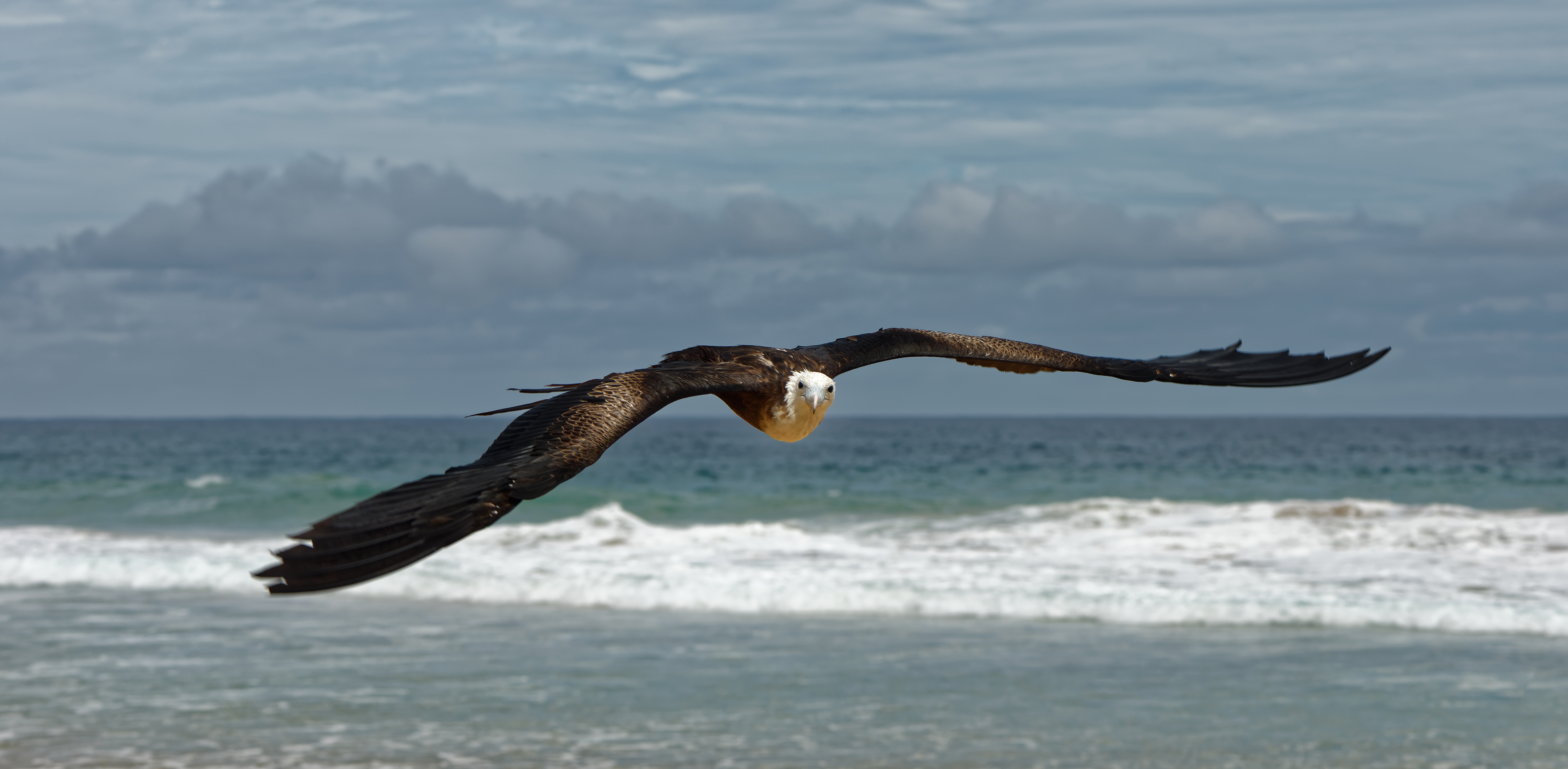 Frigatebird (Fregata) in flight at Fernando de Noronha National Park in Brazil.